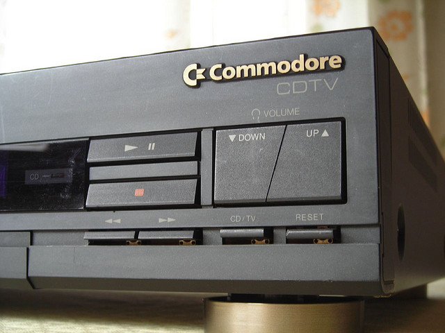 "The first multimedia home computer with a CDROM, the Commodore CDTV."